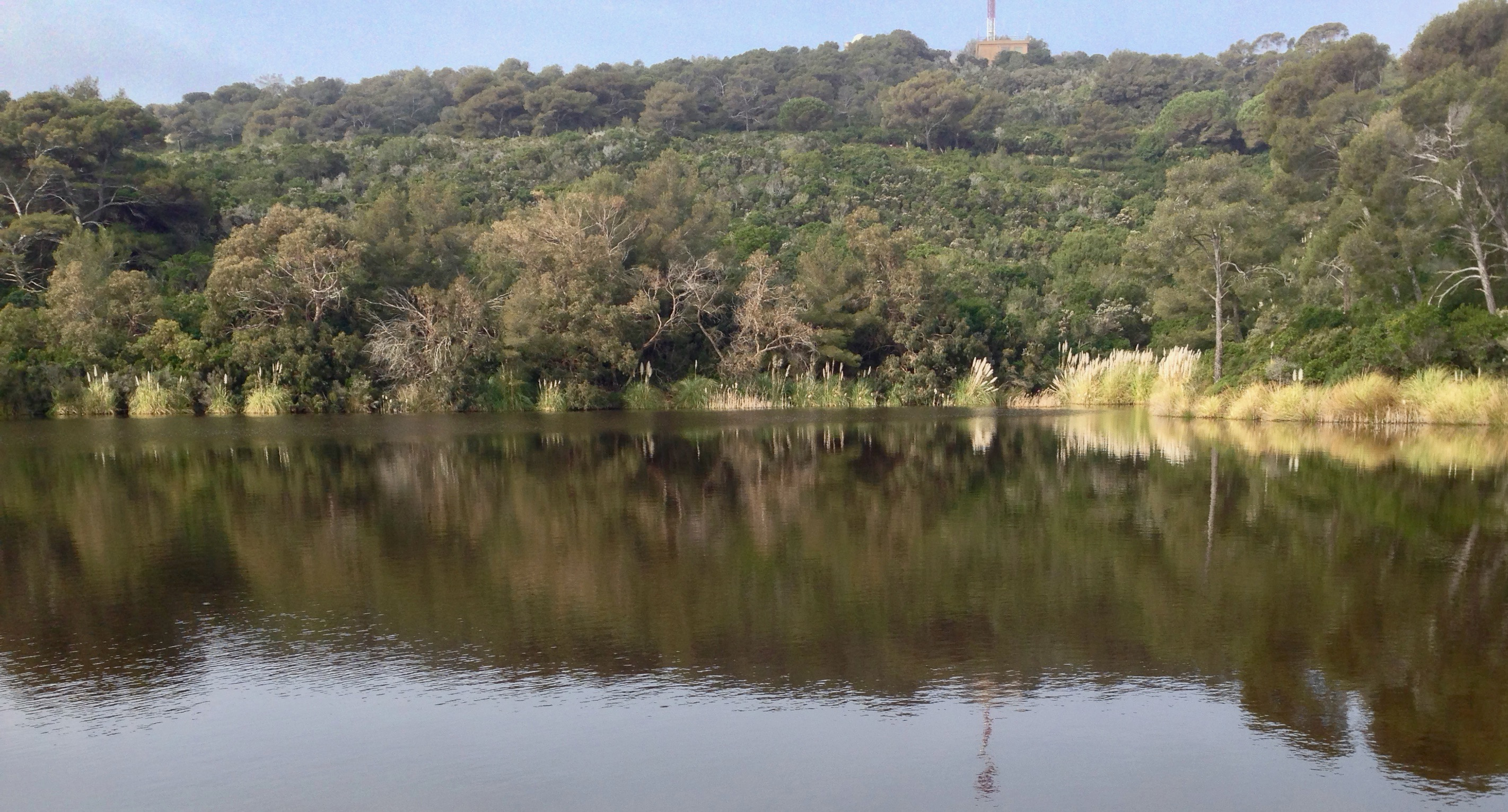 Dam of Jas-Vieux.